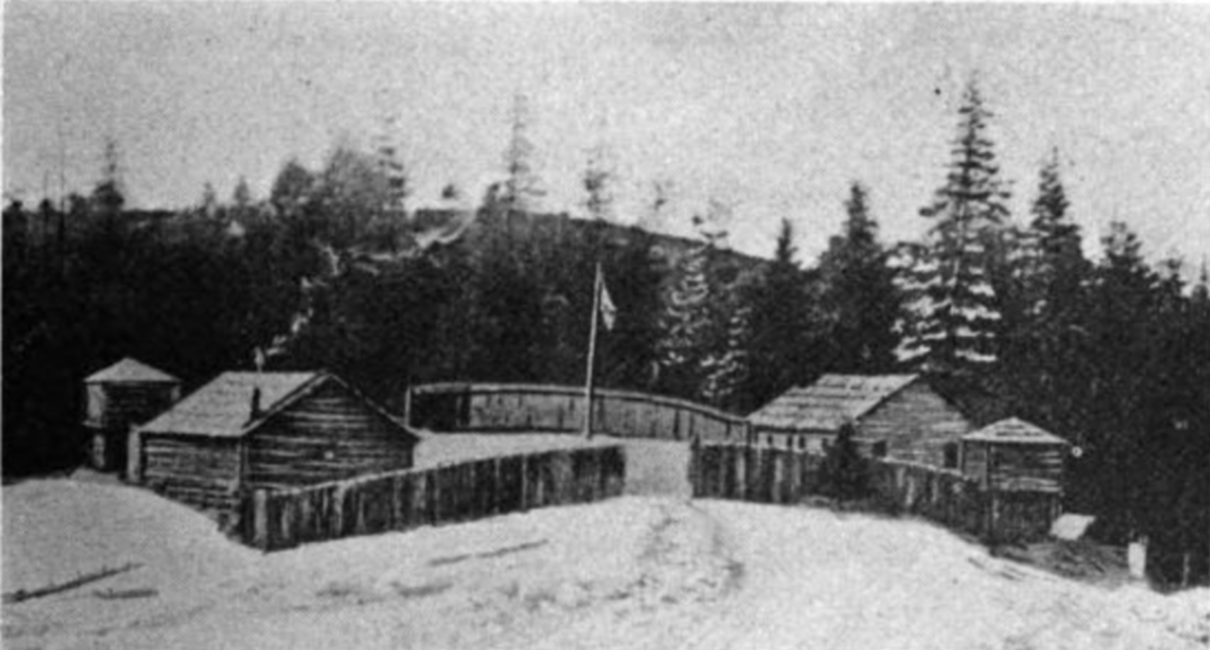 Fort Clatsop replica as depicted in Horner (1919)